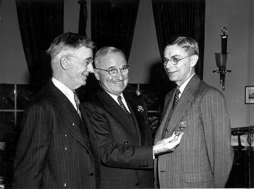 President Harry S. Truman, center, presenting Dr. James B. Conant, at right, with the Medal of Merit and Bronze Oak Leaf Cluster. Dr. Vannevar Bush stands watching at left.